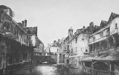 The folly ditch at Jacob's Island, a notorious Victorian slum in London. Notable as it appeared in the Charles Dickens novel, Oliver Twist